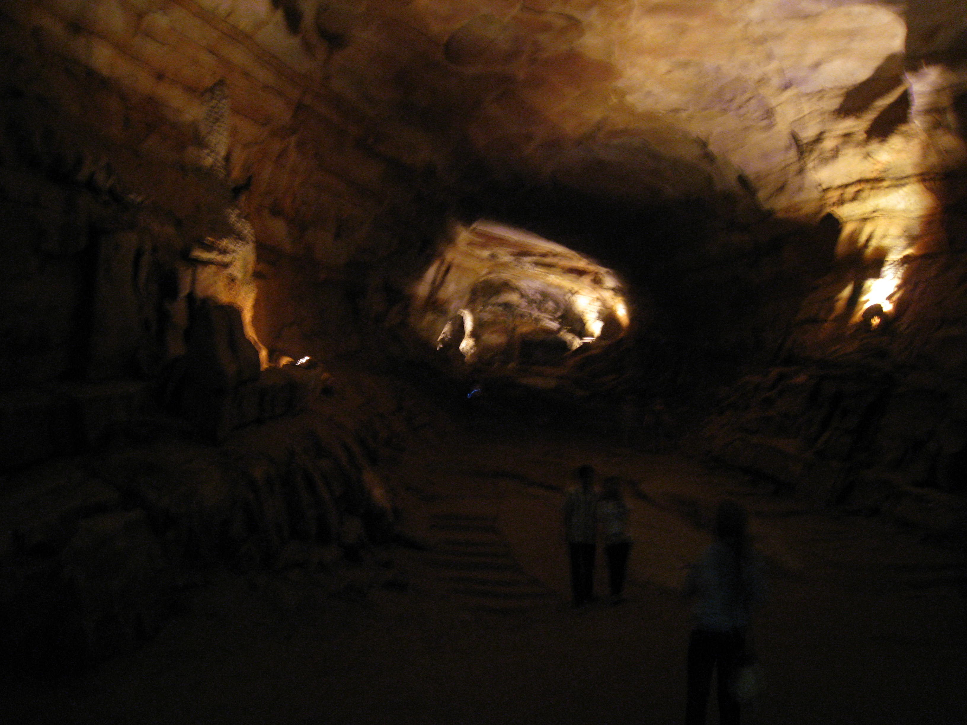 Inside Phong Nha Cave, Phong Nha-Ke Bang National Park, Vietnam